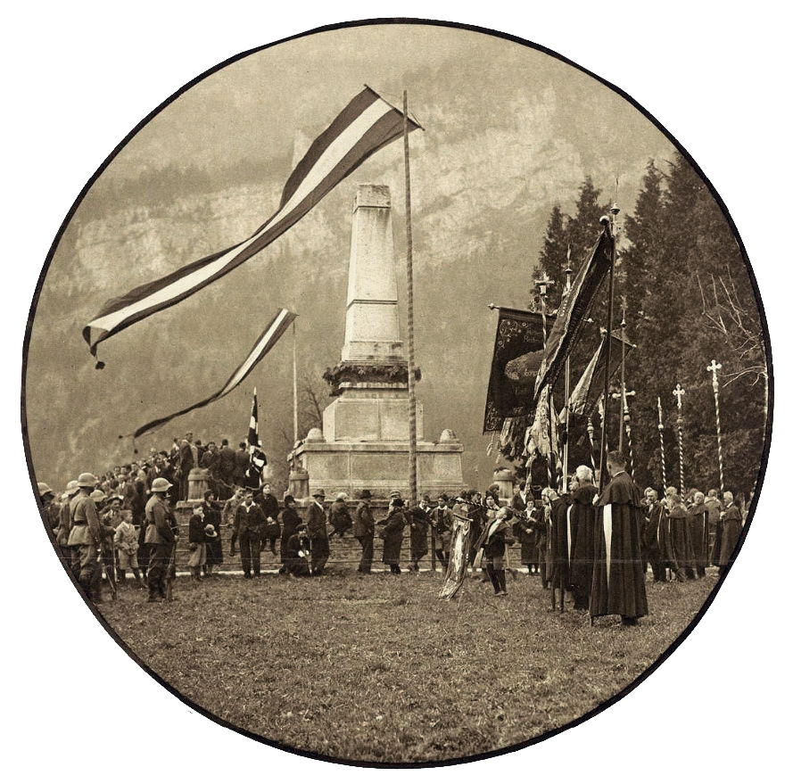 Denkmal für die Die Schlacht bei Näfels, 6. April 1933